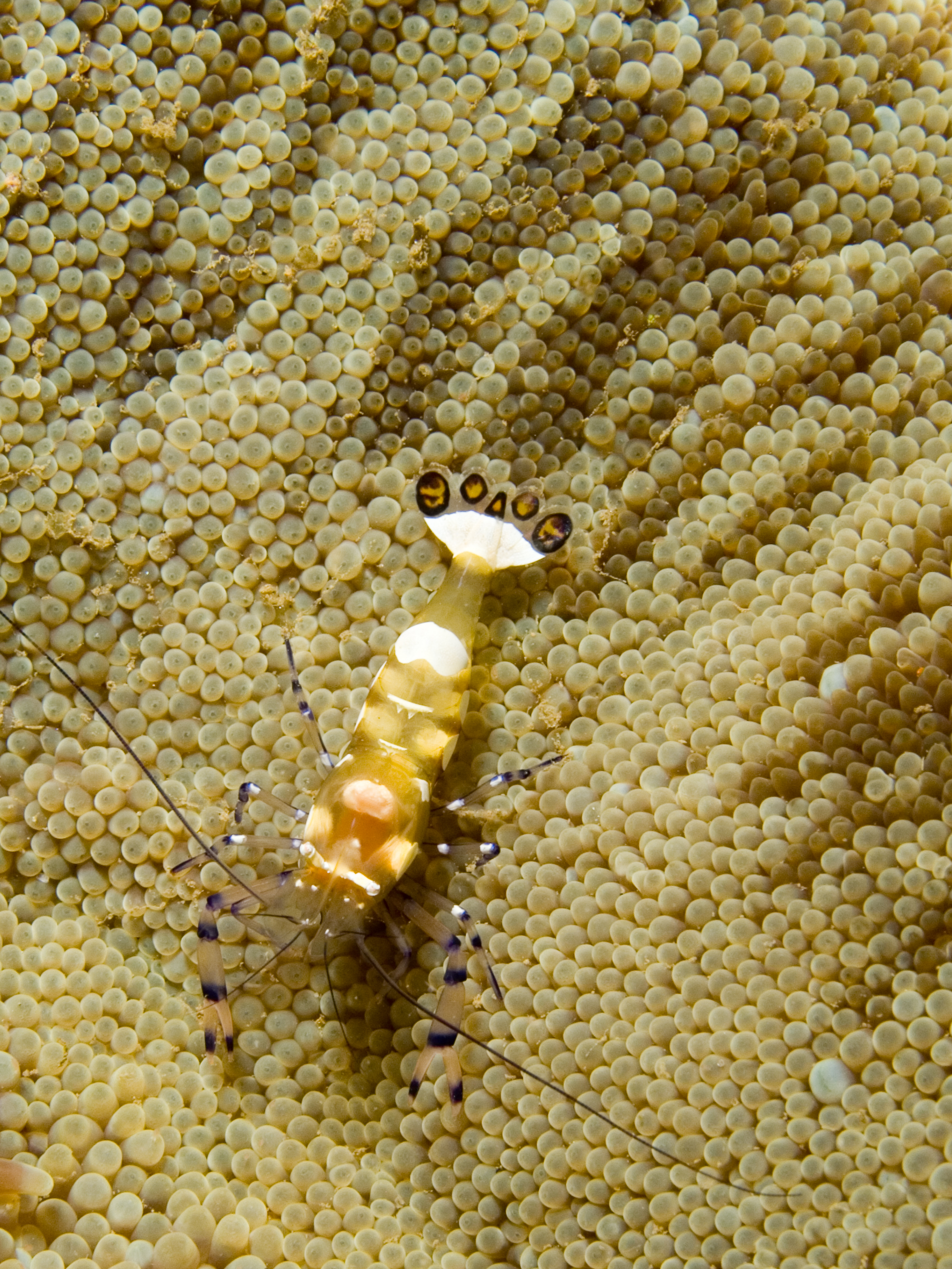 Periclimenes brevicarpalis shrimp on its host anemone Stichodactyla haddoni.